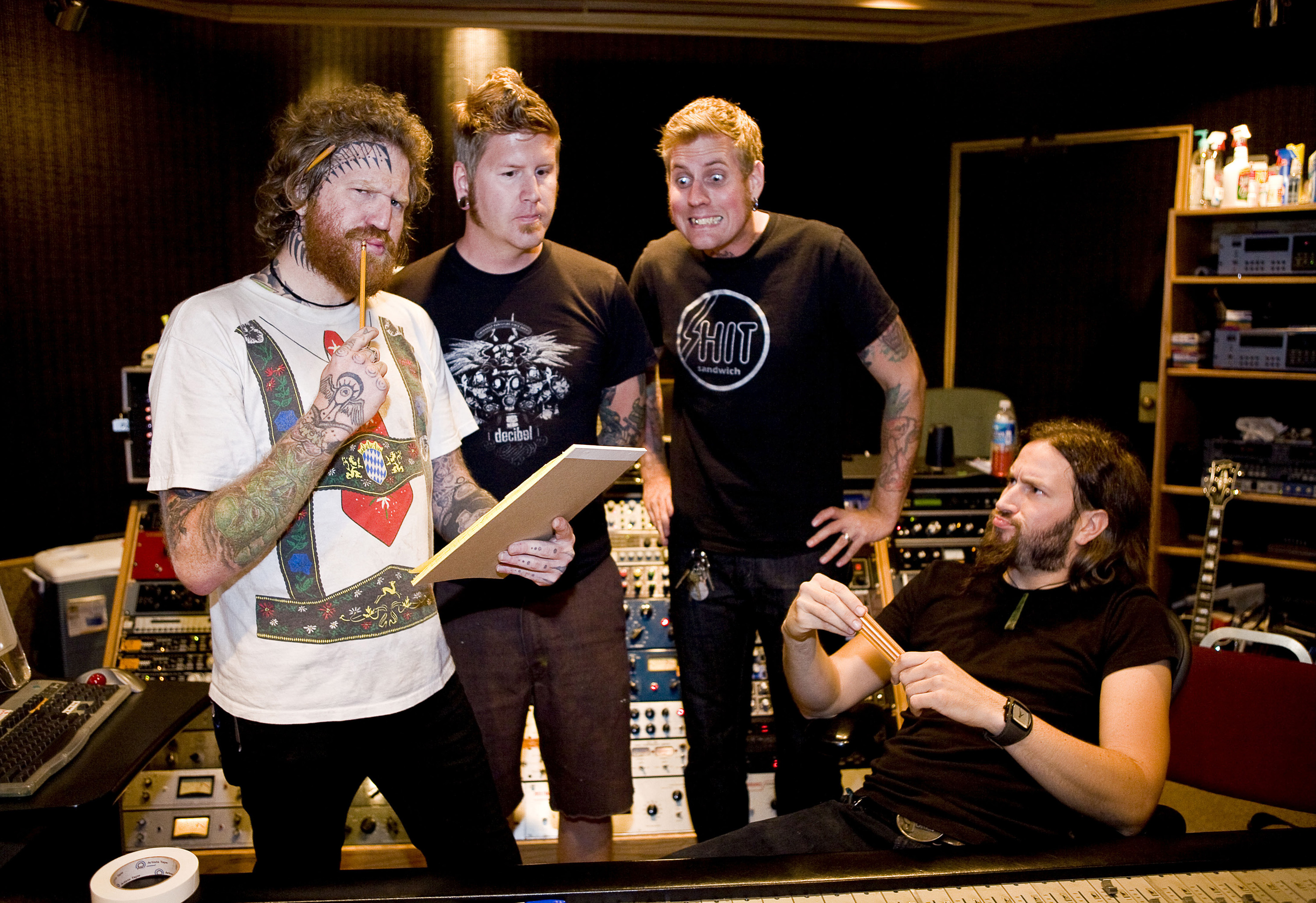 Mastodon at Southern Tracks recording studio, in Atlanta, Georgia, during the recording of Crack The Skye. From left to right: Brent Hinds, Bill Kelliher, Brann Dailor and Troy Sanders.